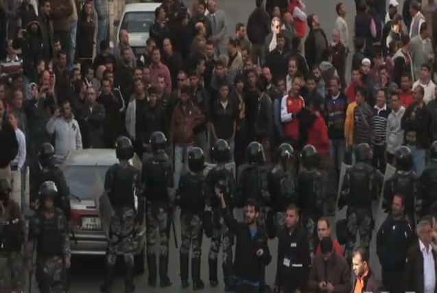 Protesters in Amman demonstrate in front of police in November 2012.